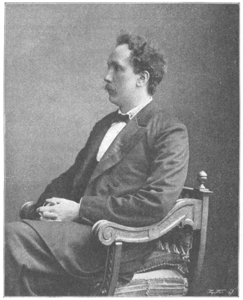 Richard Strauss (1864–1949), German composer